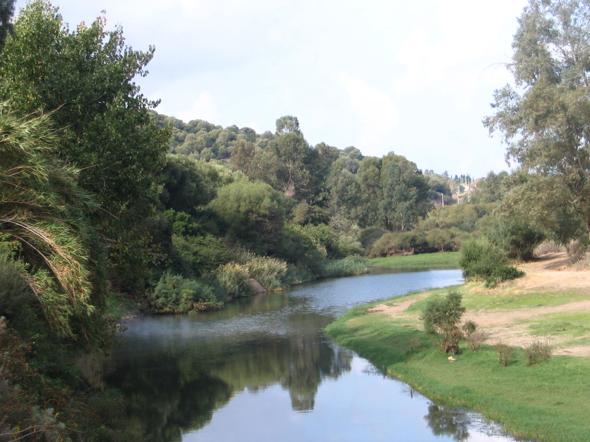 River Coghinas near Santa Maria Coghinas